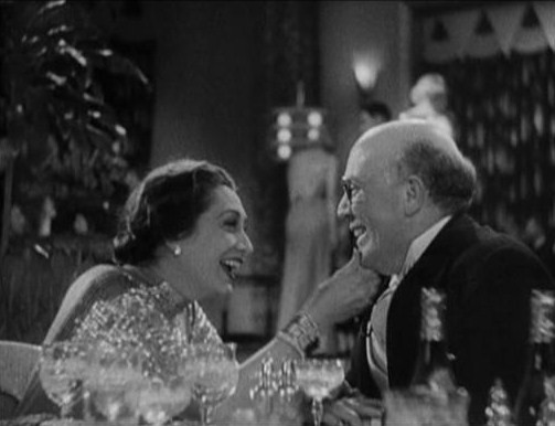 Frame from public domain trailer for 1933 Warner Bros. film Gold Diggers of 1933 showing Guy Kibbee and Aline MacMahon.